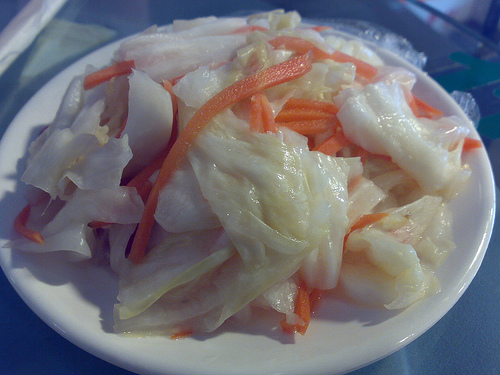 A dish of pao cai (Chinese pickled cabbage, with carrots). Photo taken June 29, 2007 at the 九豐記 beef noodle restaurant in Taipei, Taiwan.